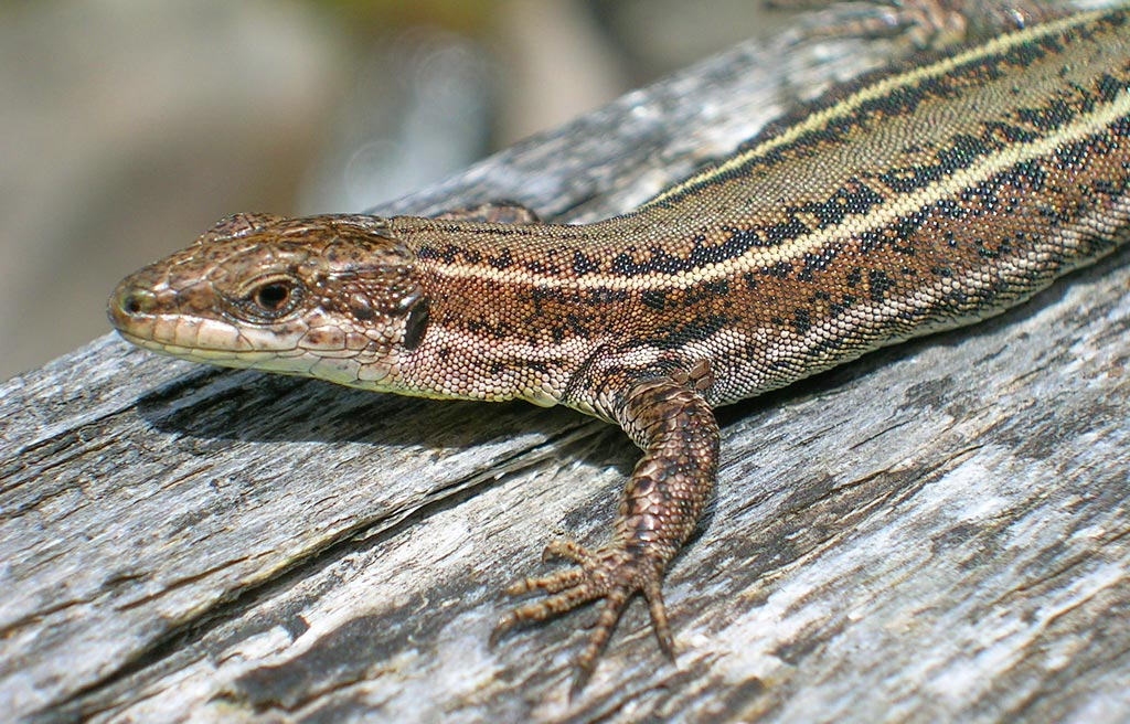 iberian wall lizard (Podarcis hispanica) in the Portuguese nation park of Peneda-Gerês